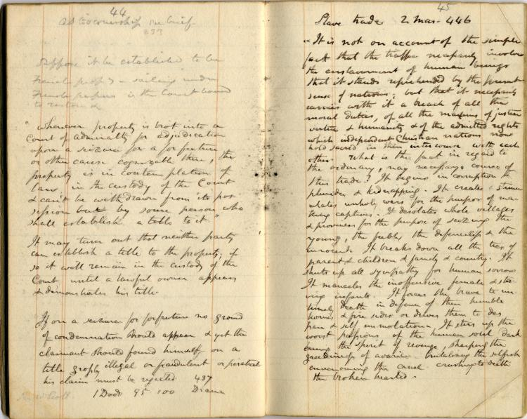 The notebook of Connecticut lawyer Roger Sherman Baldwin and his entries pertaining to the Amistad case. Courtesy of the Yale University Manuscripts & Archives Digital Images Database, Yale University, New Haven, Connecticut.